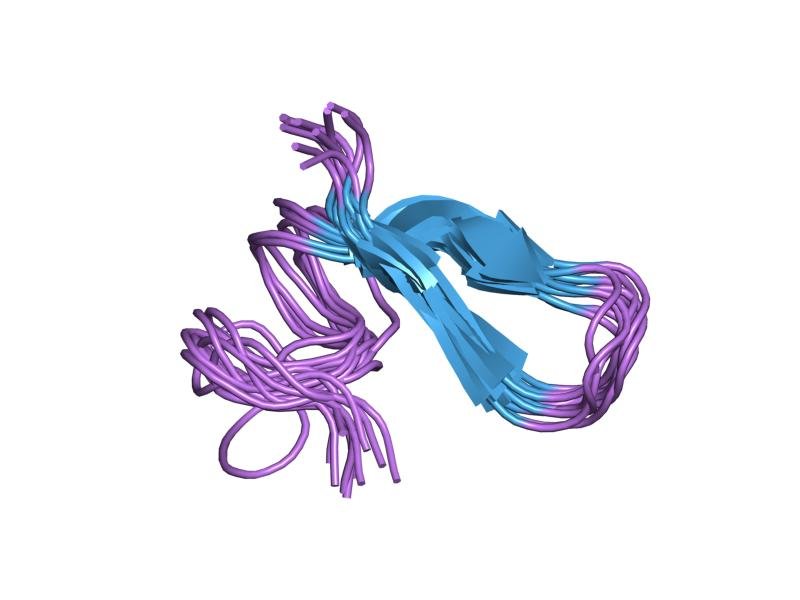 Cartoon representation of the molecular structure of protein registered with 1hrl code.